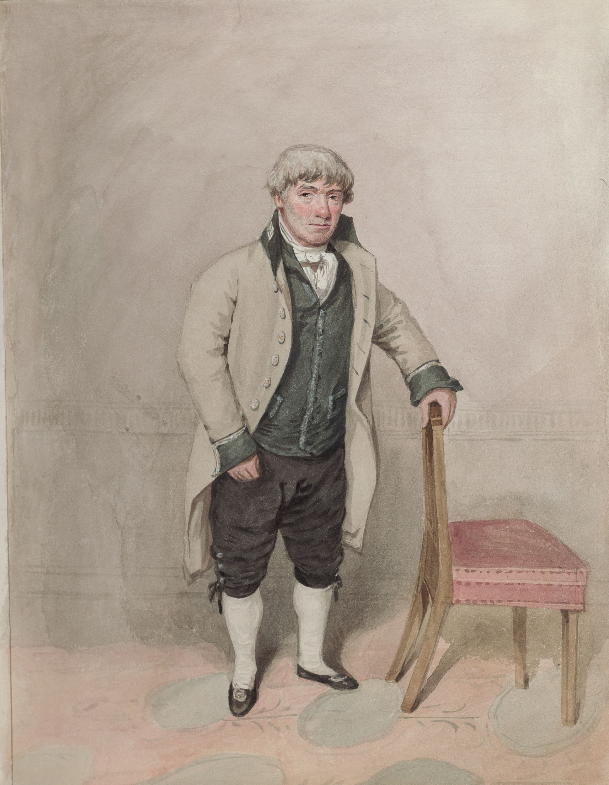 Welsh character portraits and Welsh costume relating mainly to South Wales. Portraits include Shrimpman, Idiot, Muffin Seller, Ferryman, Preacher, Servant, Begger, Harper, Irish Haymaker, Coracleman, Fiddler, Sailor, Hostler, Scottish buskers, Cowman, Blacksmith